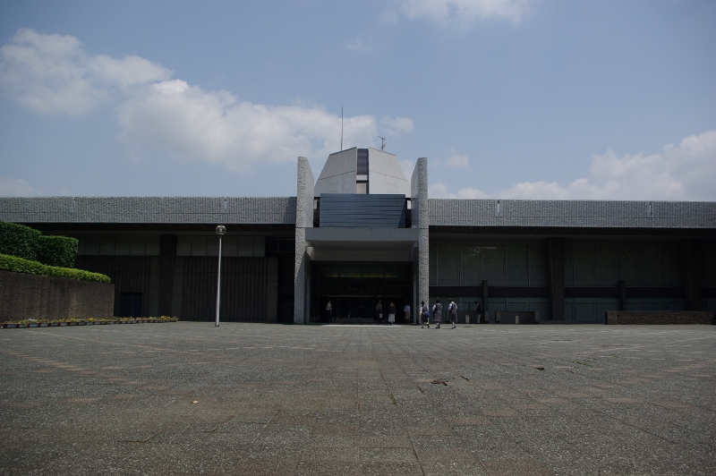 Chiba Prefectural Cultural Promotion Foundation